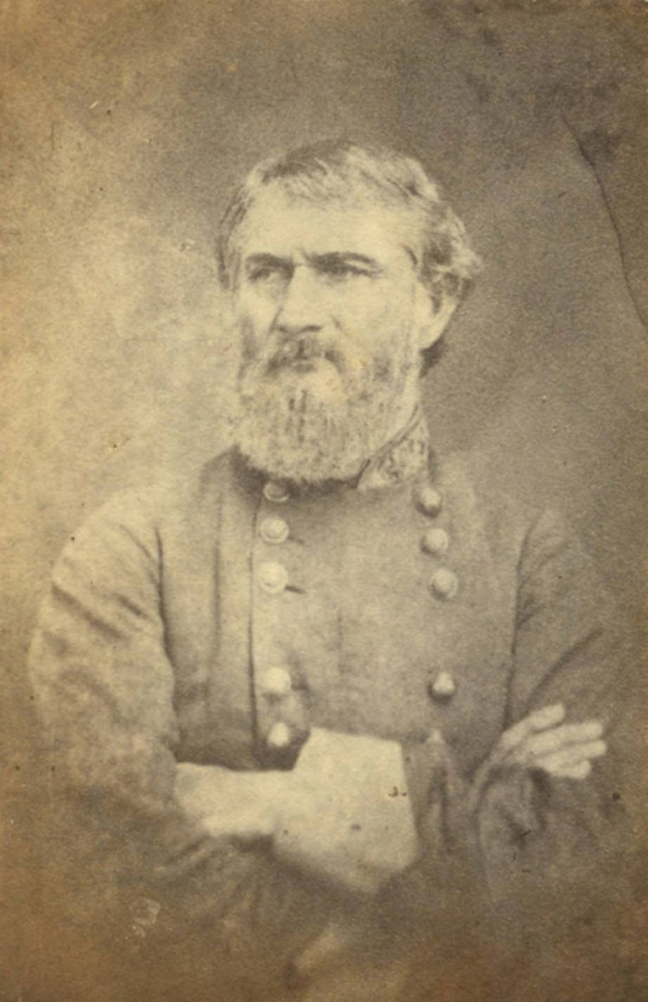 General Leonidas Polk, C.S.A., Collections of the Alabama Department of Archives and History